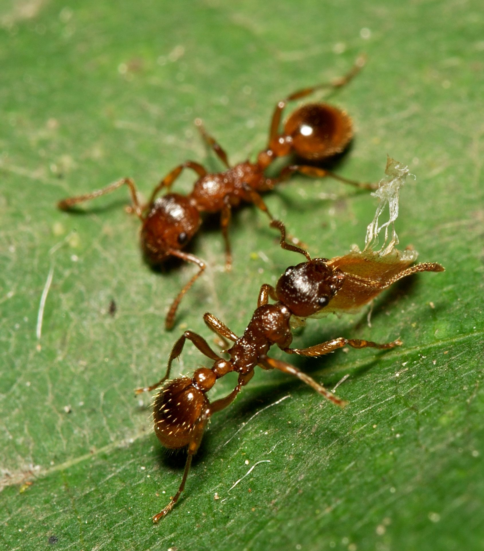 Myrmica sp. from Cologne, Germany.